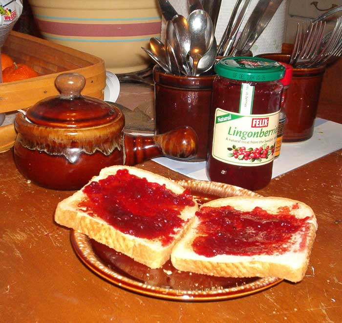 Lingonberry jam Photo by User:Hephaestos 2/13/2004 GFDL